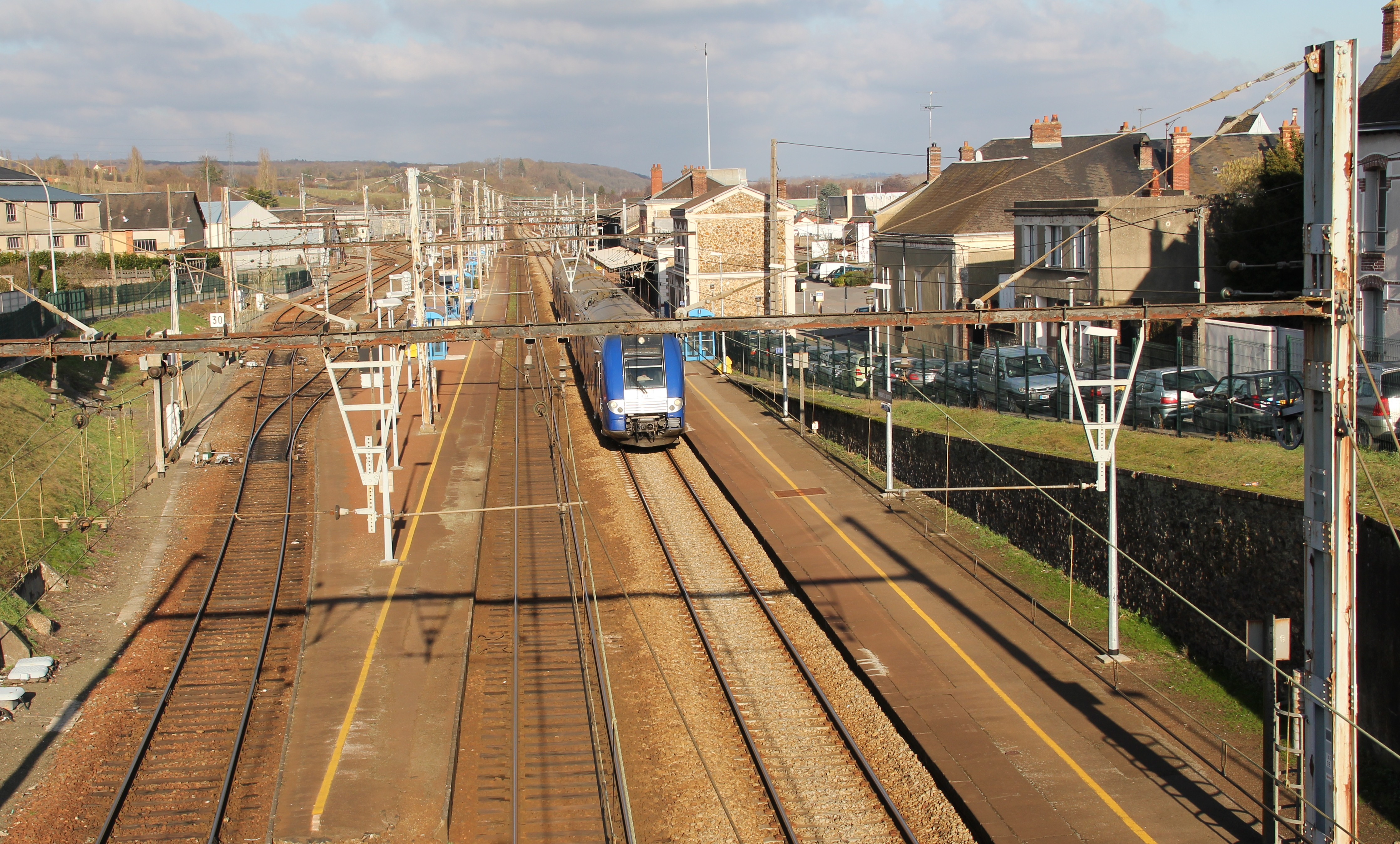 The train station of Nogent-le-Rotrou, Eure-et-Loir, France.